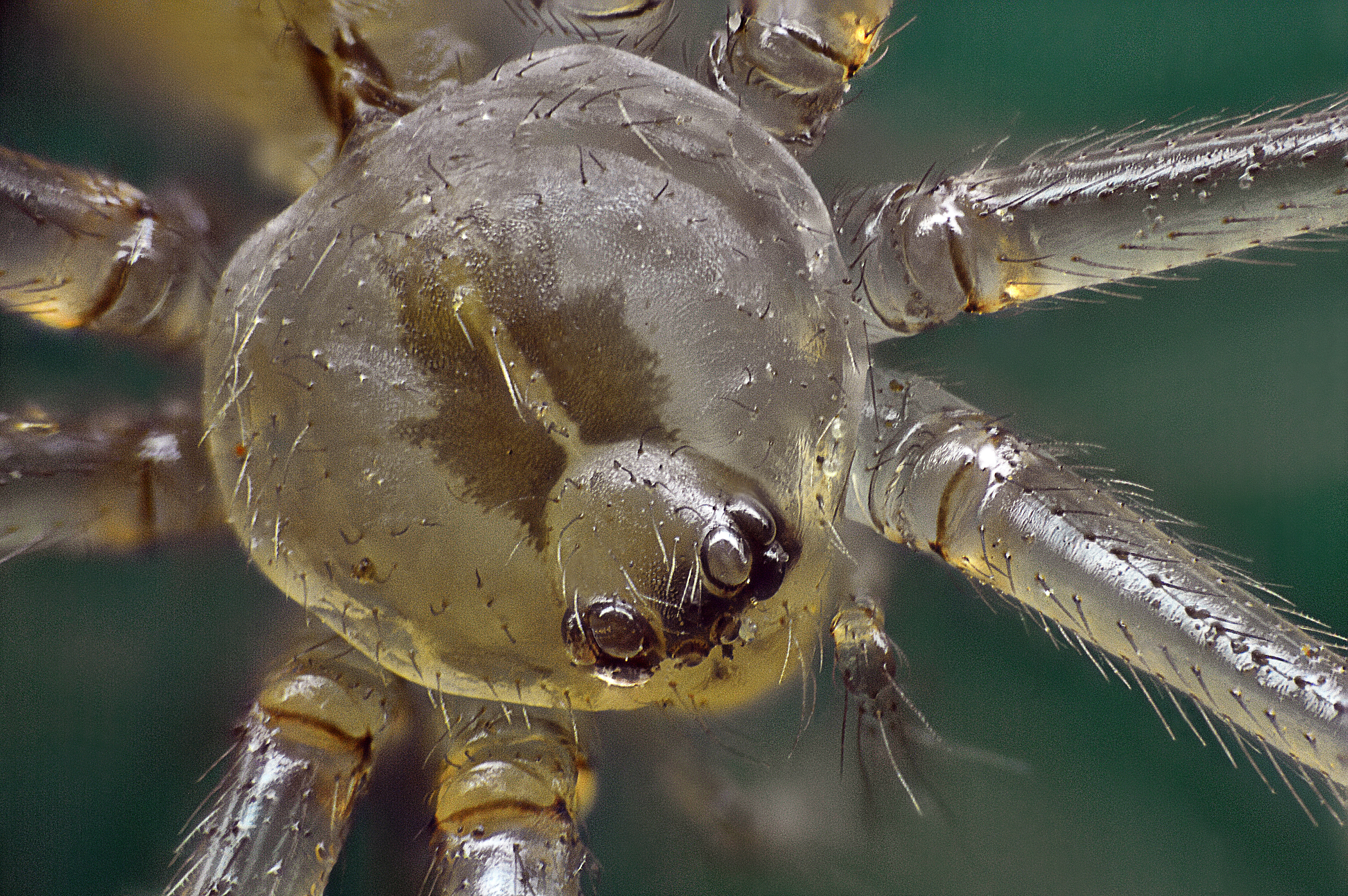 Home spider area found in one of the corners of the room. Put it on a few minutes in the freezer to keep the exterior structure and photographed a series of images (stack).